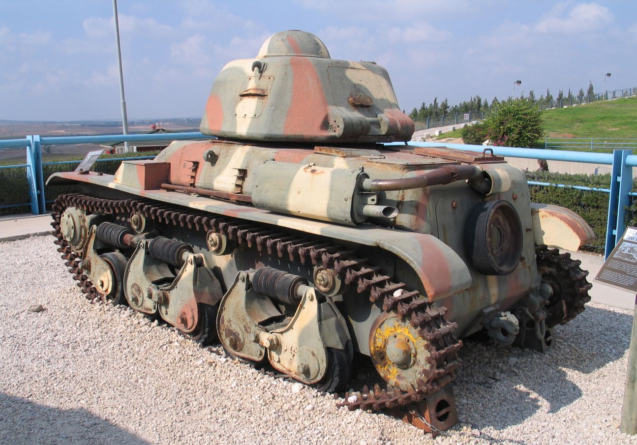 Description: Renault R-35 tank in Yad la-Shiryon Museum, Israel. 2005. Source: Photo by me, User:Bukvoed.